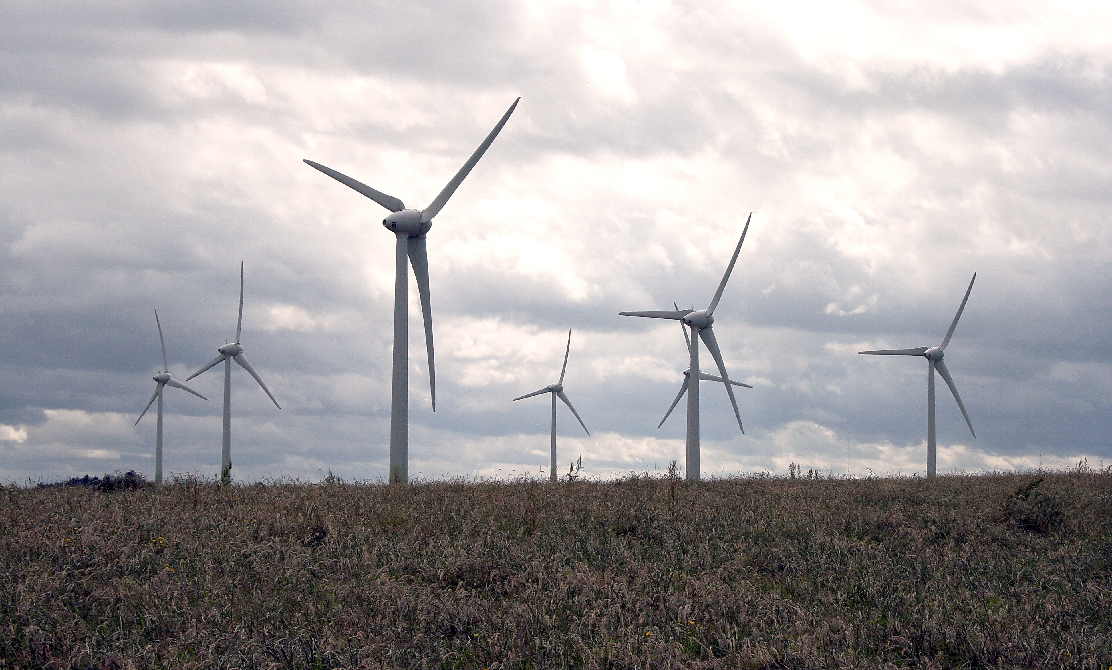 The windfarm north of Kilmuckridge, adjacent to Ballinoulart in County Wexford, Ireland